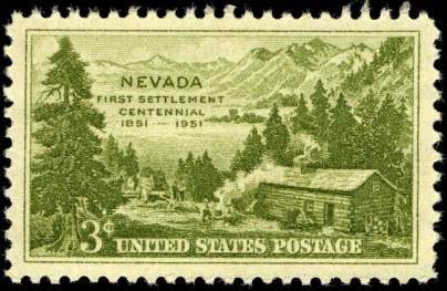 The first permanent white settlement of Nevada was commemorated on its 100th anniversary on a 3-cent stamp issued on July 14, 1951. The stamp depicts a log cabin, mountain range, and a pioneer scene.